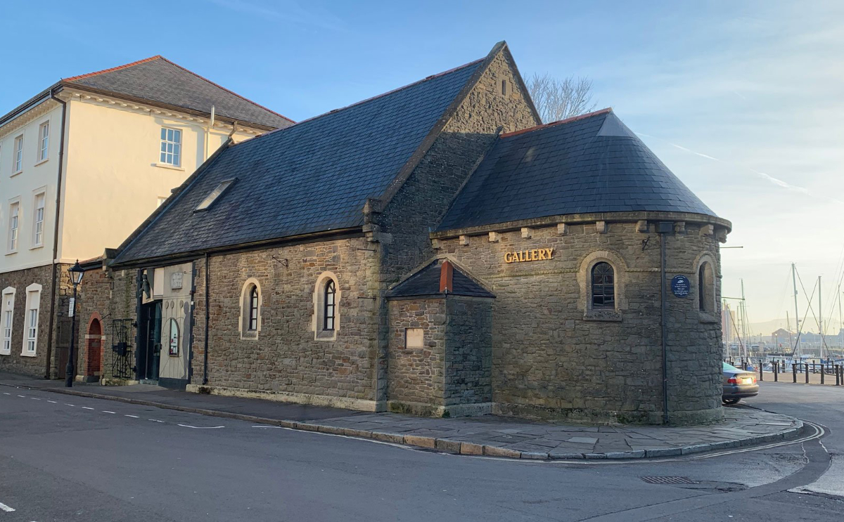 A photograph of the outside of Mission Gallery. A visual and applied arts gallery in Swansea. Located in Swansea Marina.